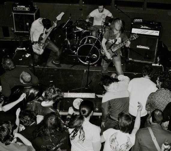 Cluny2, Newcastle-Upon-Tyne, 2012